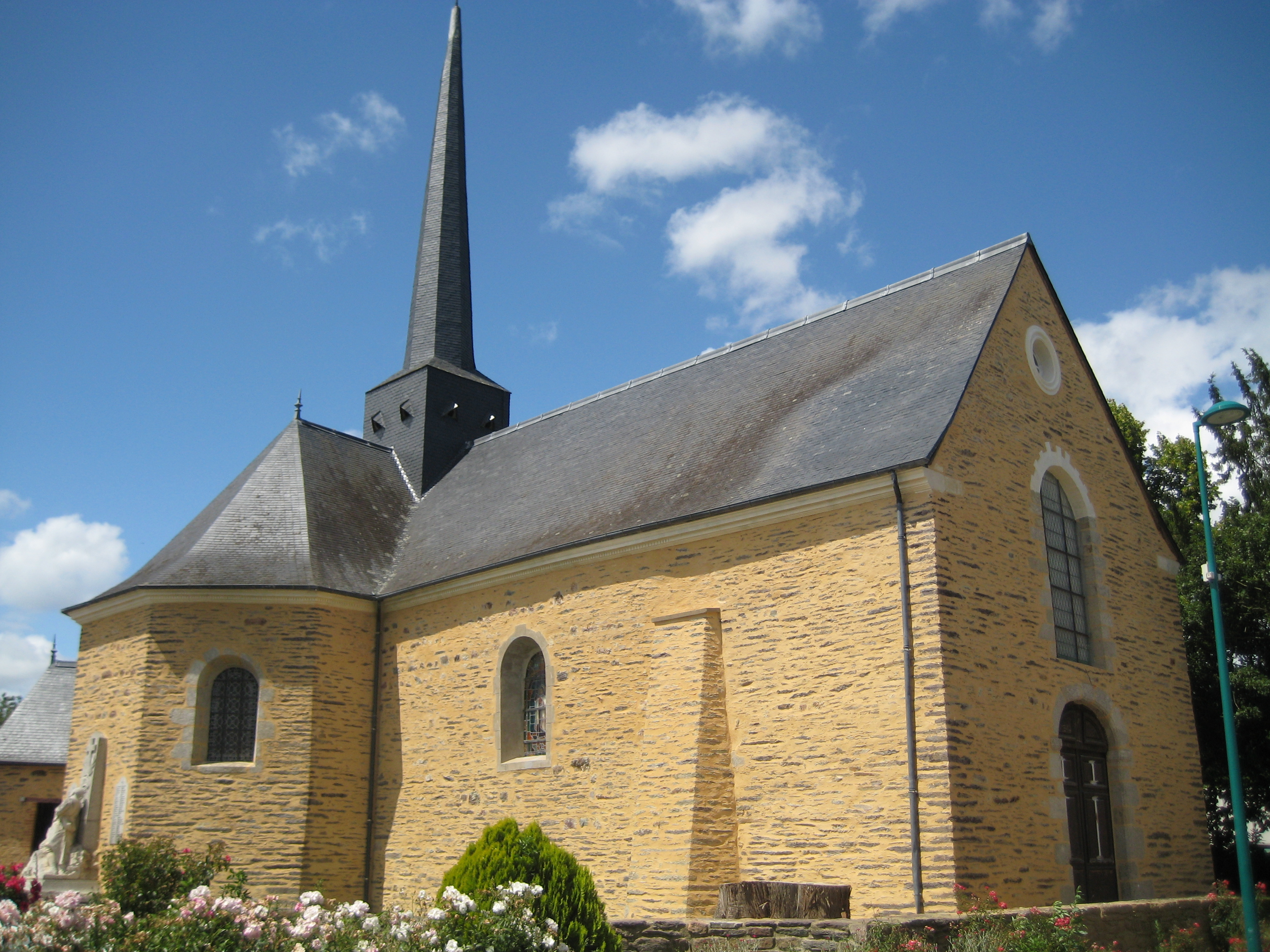 Church of La Chapelle-Bouëxic